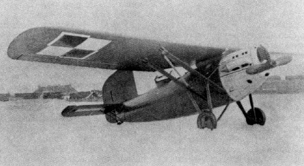 Polish two-seat fighter and reconnaissance aircraft PWS-1bis